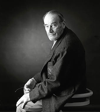 Karl Gustaf Kristoffersson, 1918-2011 swedish photographer